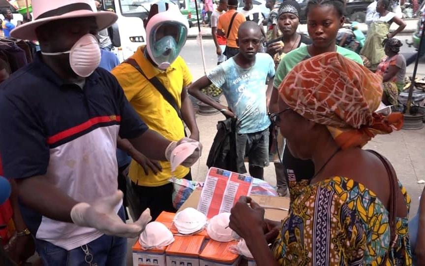 Opportunistic seller of surgical masks at the Total market in Brazzaville during the COVID-19 pandemic (19 March 2020)